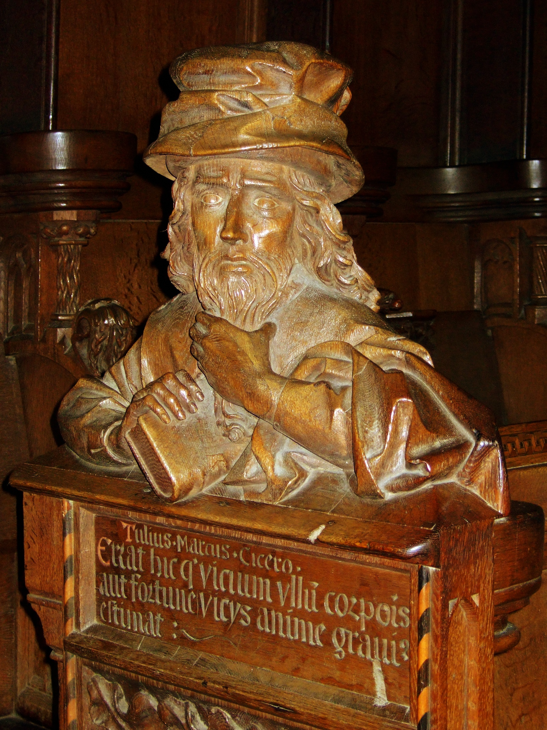 The Lutheran cathedral "Ulm Münster" of Ulm/Germany, carved bust of Cicero